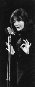 Juliette Gréco